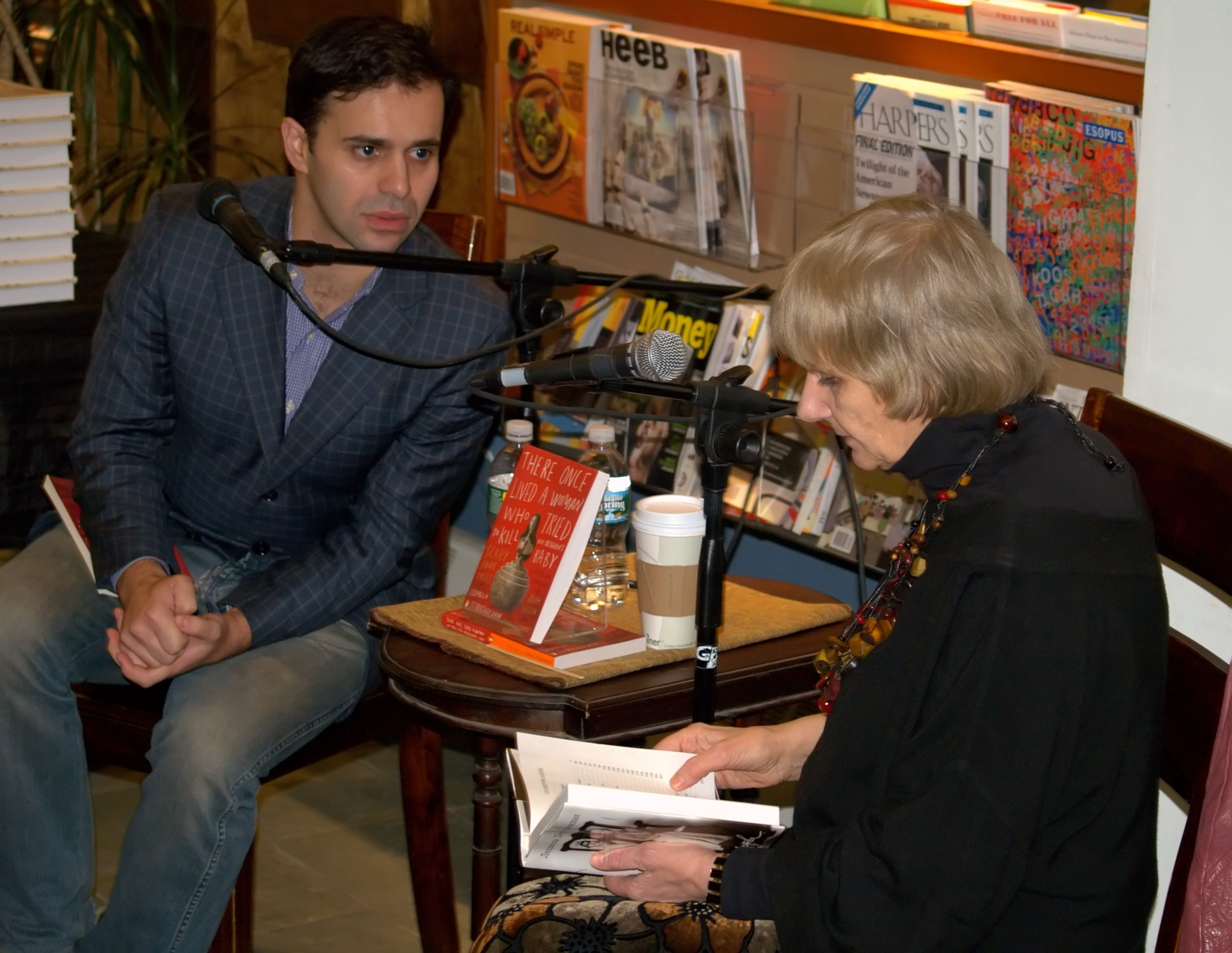 Keith Gessen with Russian author Ludmilla Petrushevskaya at McNally Jackson book store in New York City.